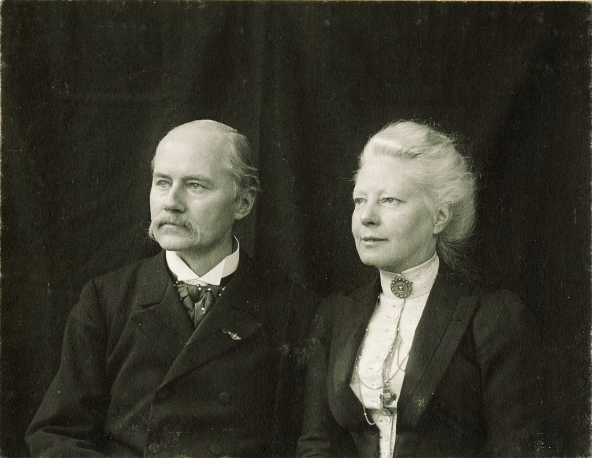 Jacob Cornelis and Marken